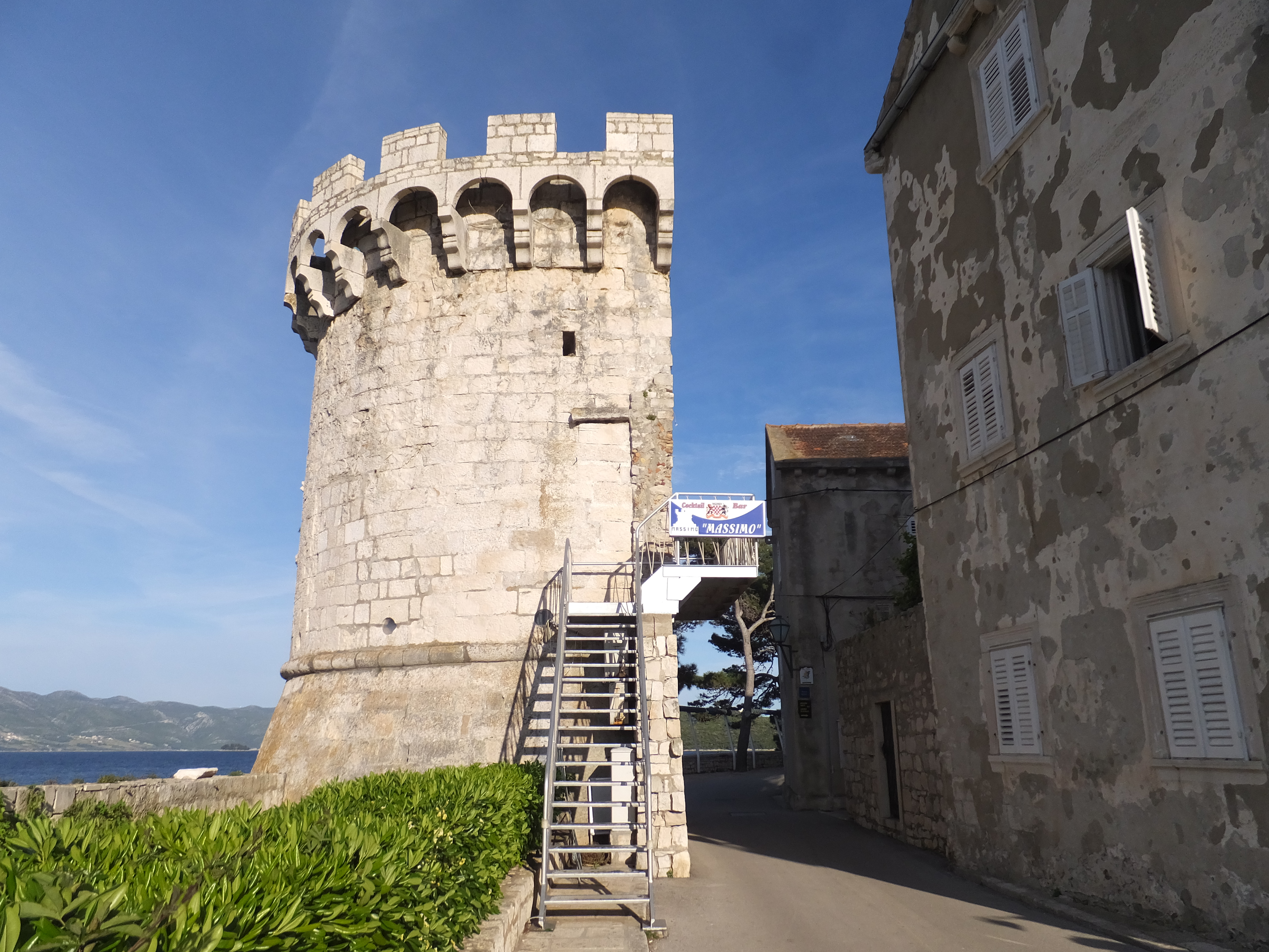 Korcula Fortifications of City Wall